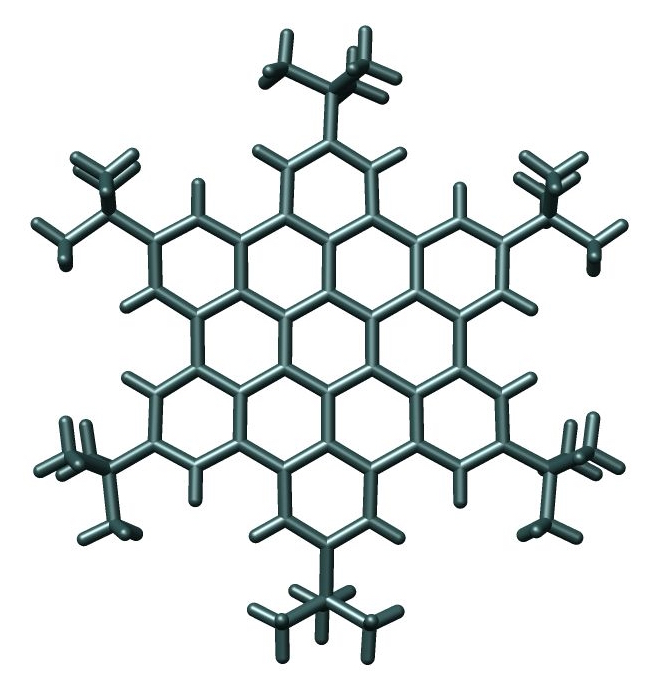 This is a picture generated from crystal structure data reported by Peter T. Herwig, Volker Enkelmann, Oliver Schmelz, Klaus Müllen in Chemistry – A European Journal, Year 2000, Pages 1834-1839. It shows a hexa-tert-butyl-hexa-peri-hexabenzocoronene. It was made by myself and is free to be used by all.